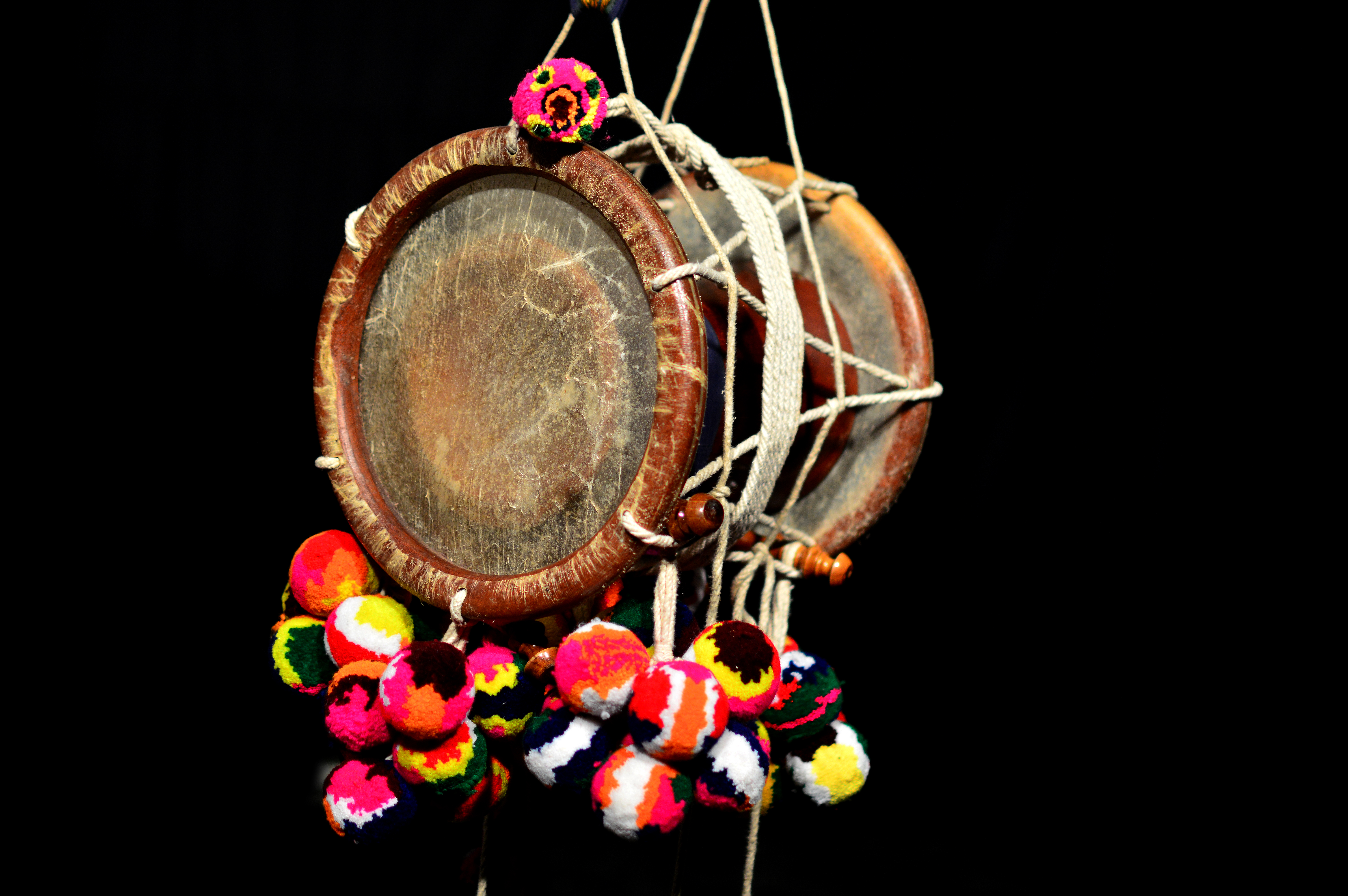 The idakka (Malayalam: ഇടയ്ക്ക), also spelt edaykka, is an hourglass-shaped drum from Kerala in south India. This handy percussion instrument is very similar to the pan-Indian damaru. While the damaru is played by rattling knotted cords against the resonators, the idakka is played with a stick. Like the damaru, the idakka's pitch may be bent by squeezing the lacing in the middle.